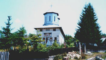 Biserica din Albestii de Muscel